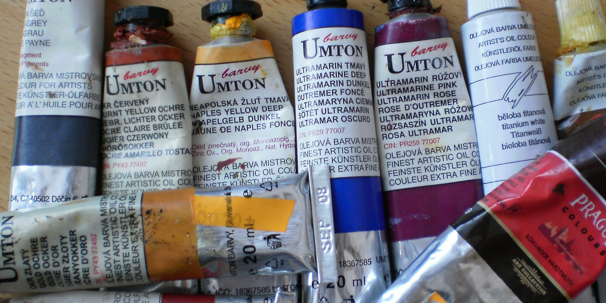 Oil paint in tubes